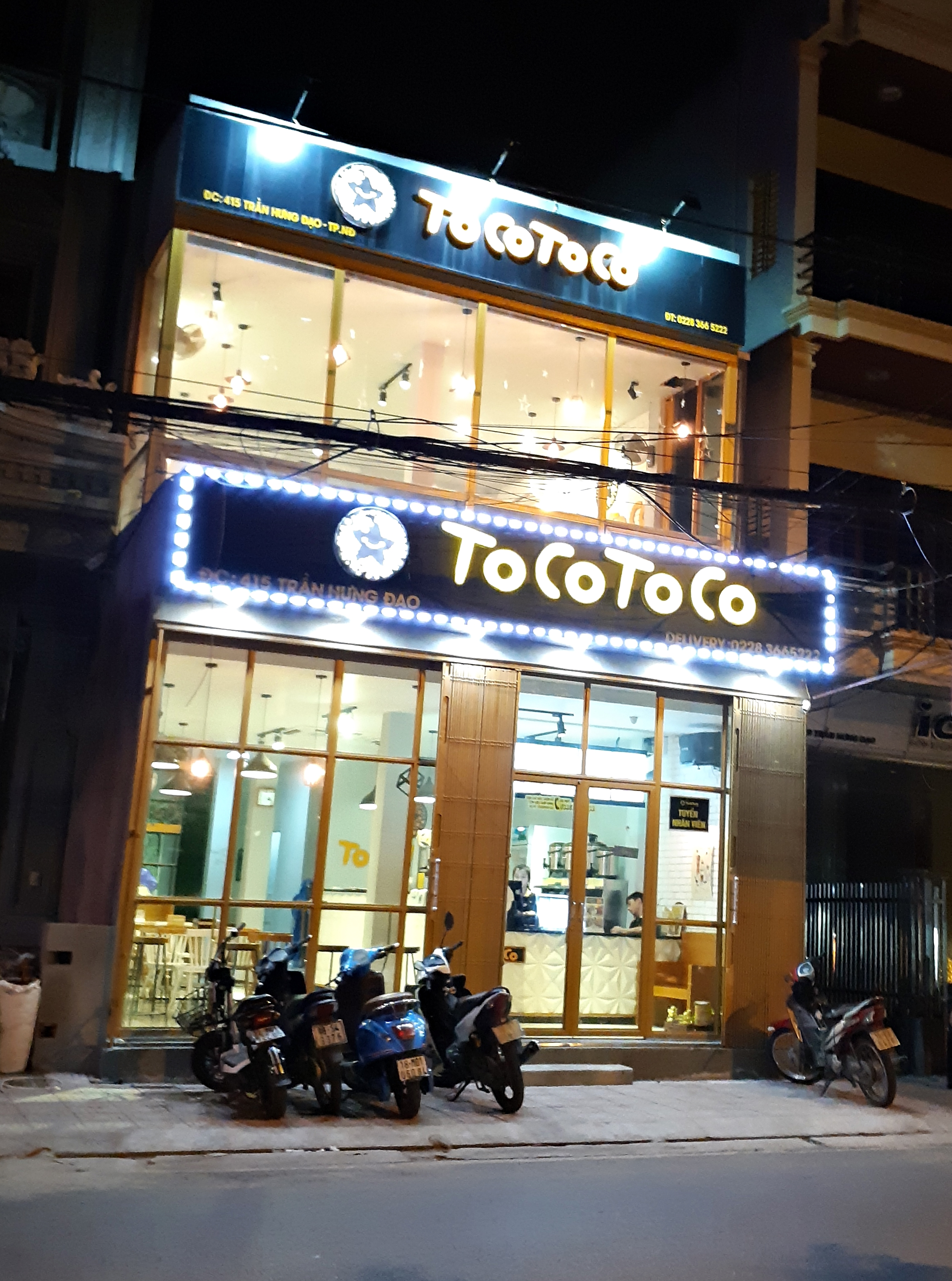 TocoToco shop, at 415 Tran Hung Dao Road, Nam Dinh City, Nam Dinh Province, Vietnam.